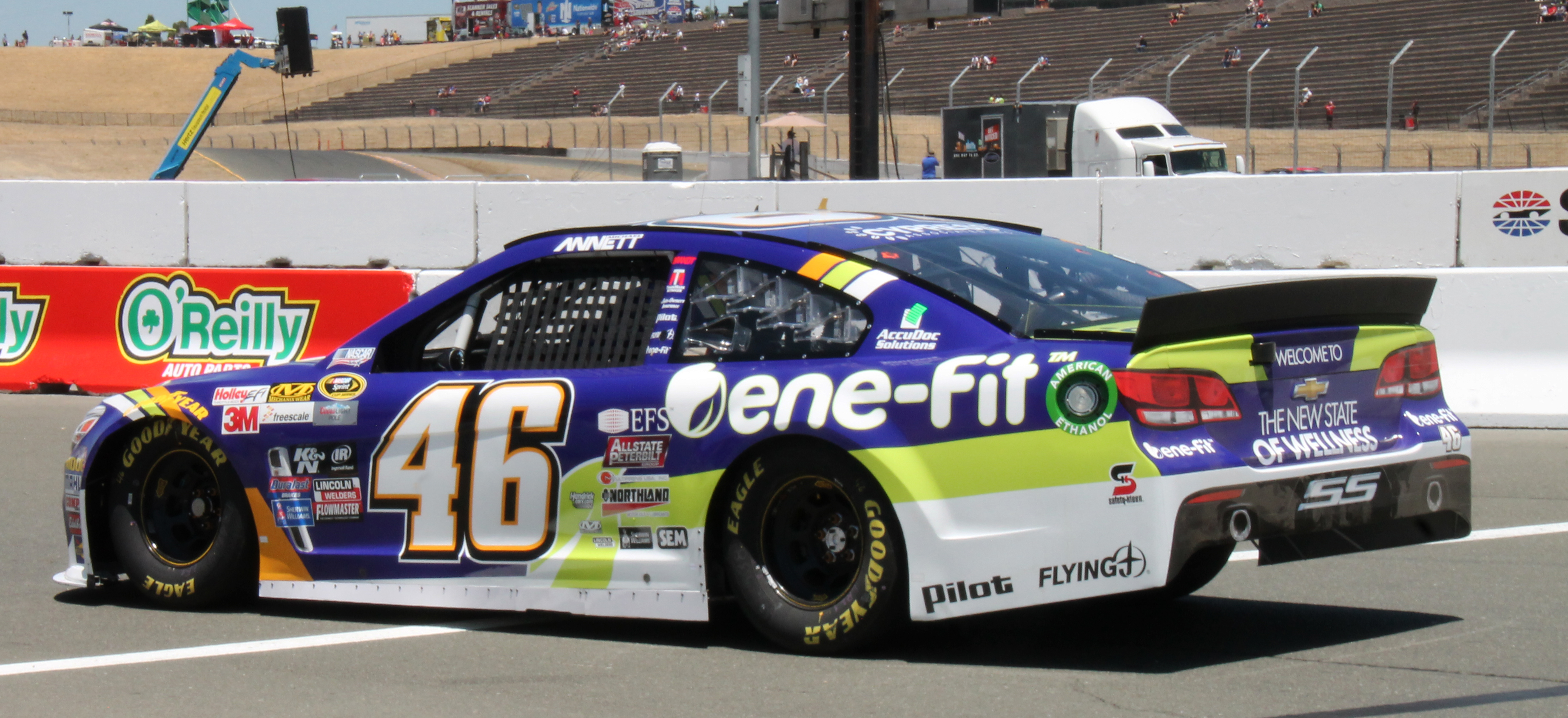 Michael Annett at the 2015 Toyota/Save Mart, Sonoma, California